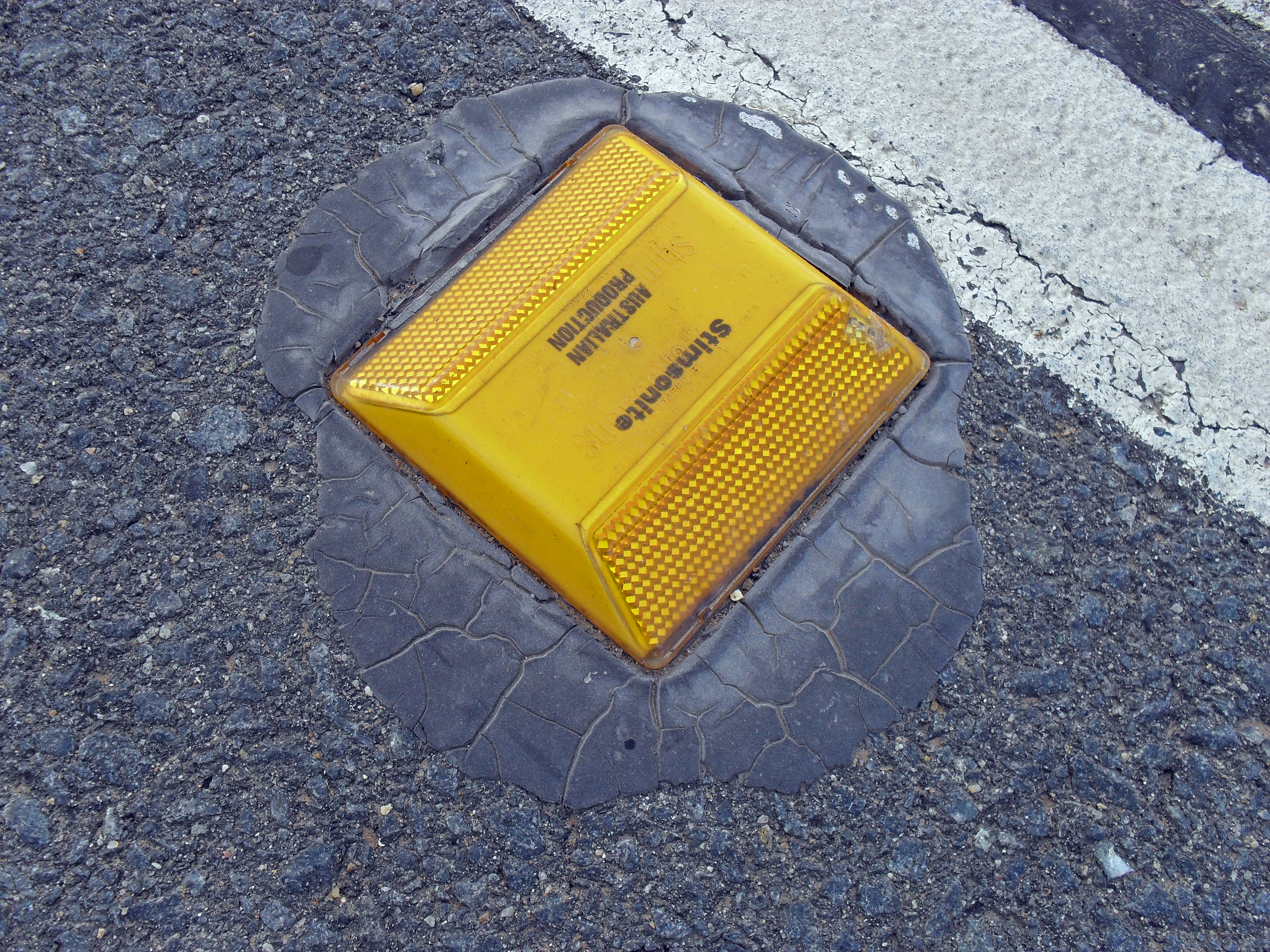 Yellow raised pavement marker photographed in Australia.